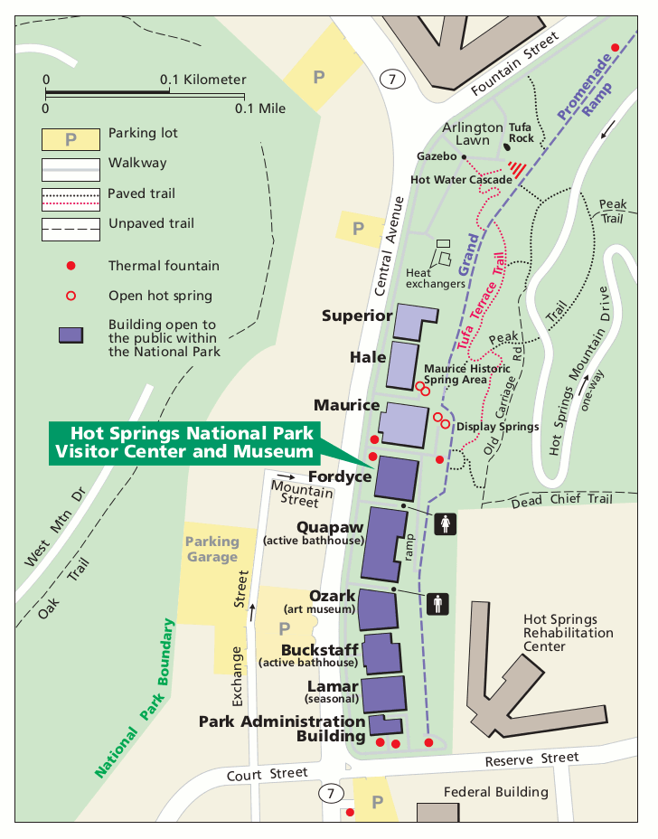 Hot Springs visitor center area map, zoomed in on the most visited part of Hot Springs National Park including the bathhouses, springs, roads, parking, trails, and visitor center.